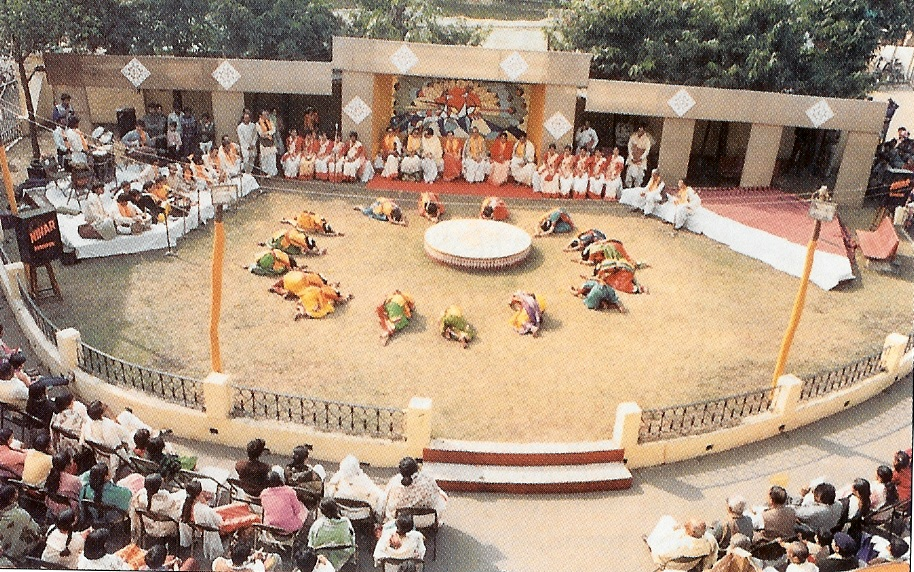 Source: Pic taken by Steel Authority of India Limited Public Relations department and allowed by them to be put up on Wikipedia. SAIL PR department supplies photographs to the press for publication. No copyright. It can be reused as deemed best.